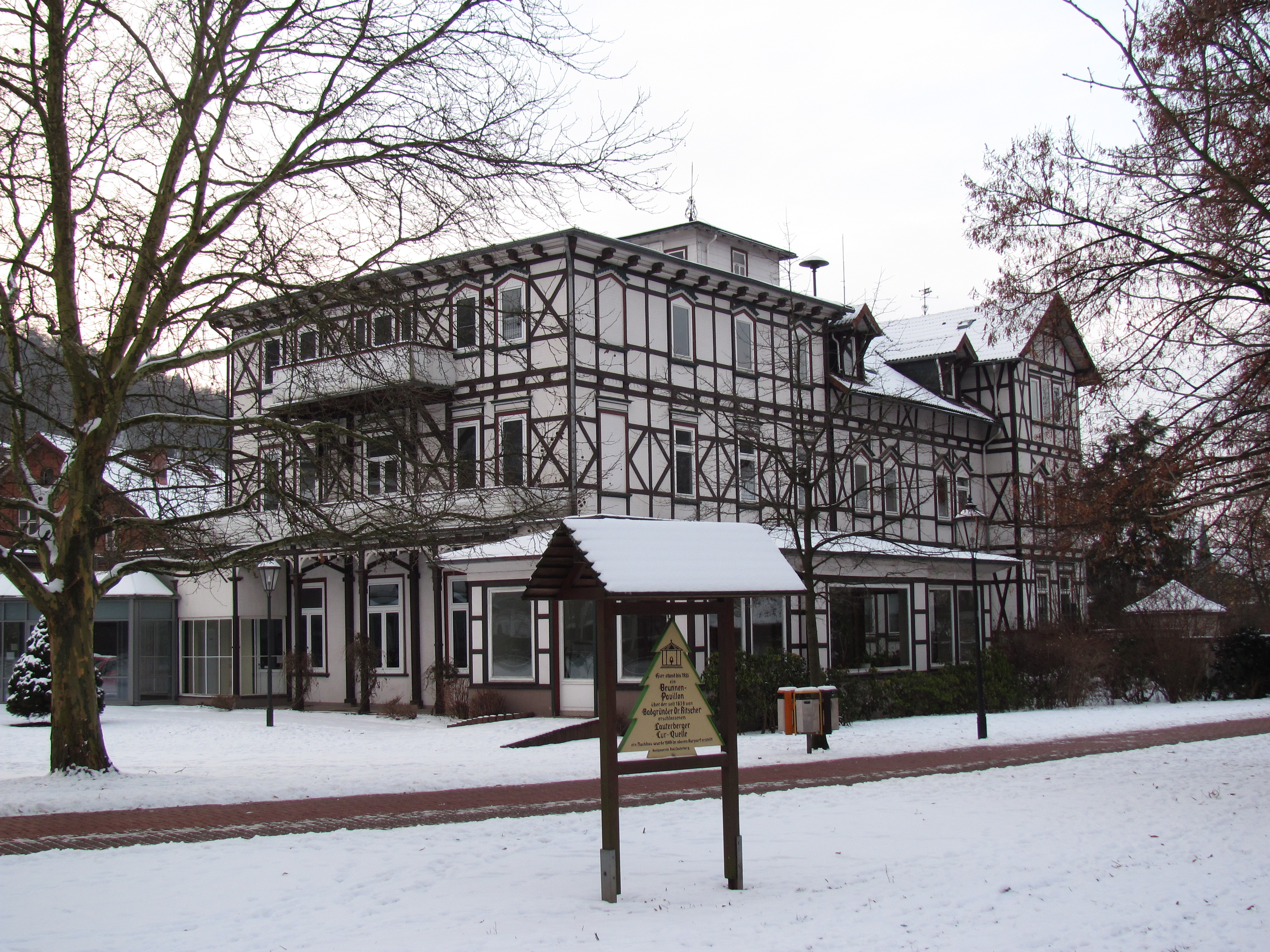 Town Hall, Bad Lauterberg, Lower Saxony, Germany